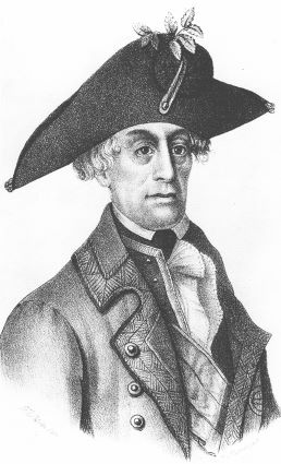 Johann Peter von Beaulieu, general of the Astrian army (1725-1819)